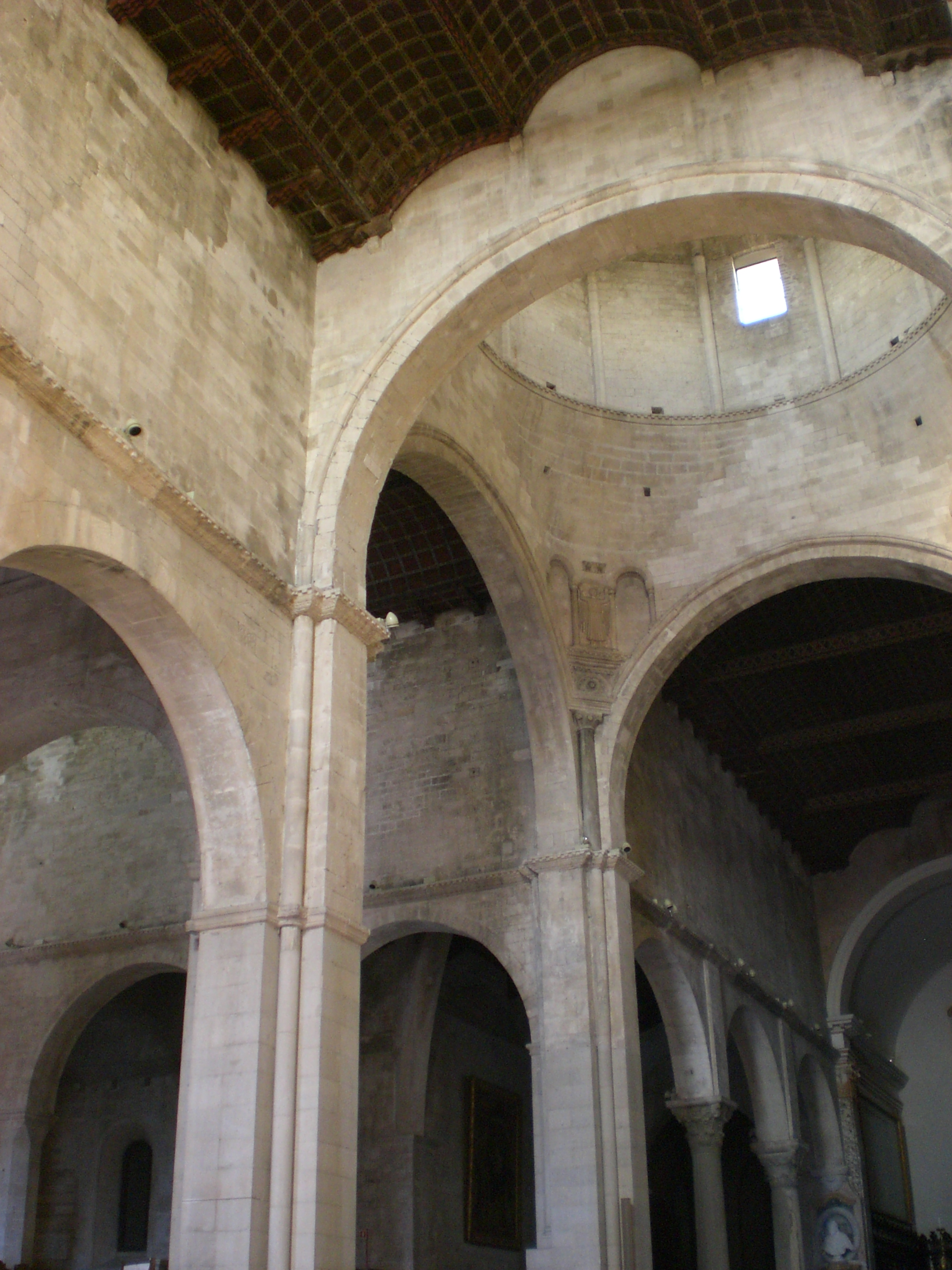 Ancona, Saint Cyriacus Cathedral, X-XII century